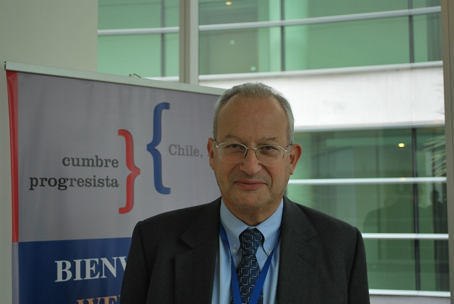 Former UK Minister for Science and Innovation David Sainsbury, Progressive Governance Conference 2009 in Chile.